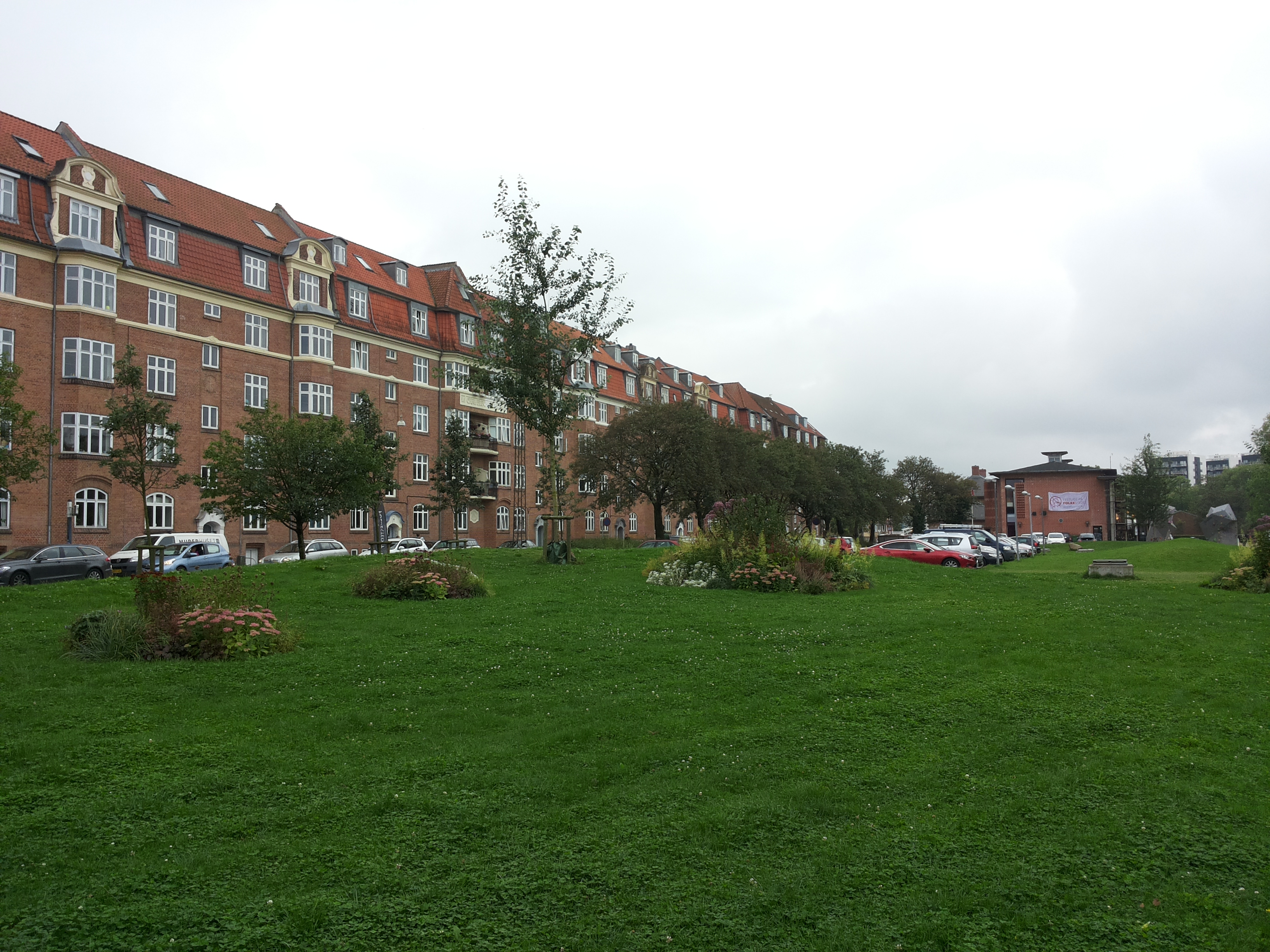 Overview